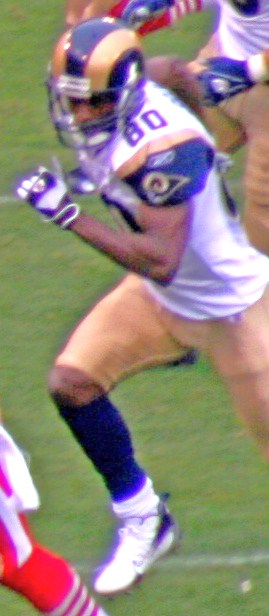 Steven Jackson of the St. Louis Rams rushes with the ball.